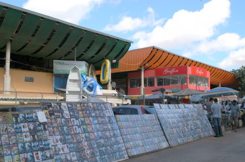 Copyright infringement